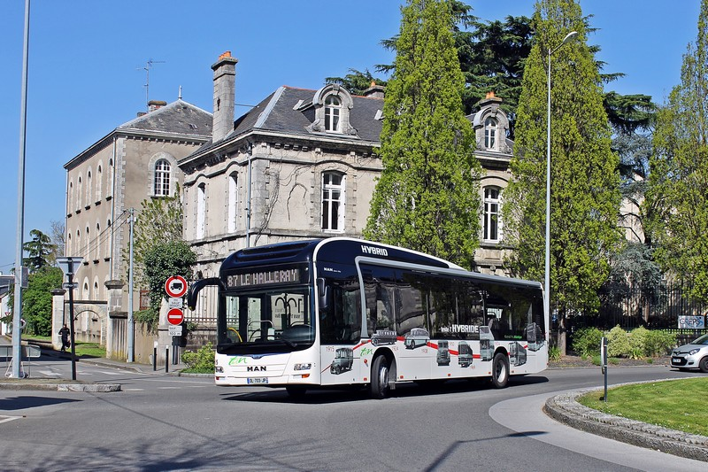 A MAN Lion’s City Hybrid (MAN Truck & Bus, as loan for trials as n°1065 at Kéolis Atlantique), carrying out the line 57 of the bus network TAN — Toutes-Aides, Nantes↔Le Halleray, Thouaré-sur-Loire — and running in the Place Gabriel Trarieux (Nantes, France) on April 7, 2017.